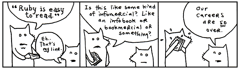 Transcript Frame 1 Fox 1: "Ruby is easy to read." Fox 2: Eh.. That's my line. Frame 2 Fox 1: Is this like some kind of infomercial? Like an infobook or bookmercial or something? Frame 3 Fox 2: Our careers are so over.